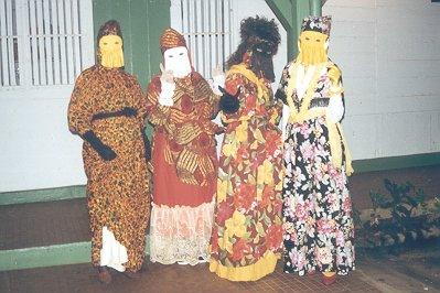 Four anonymous women dressed as touloulous, in a private house in Cayenne